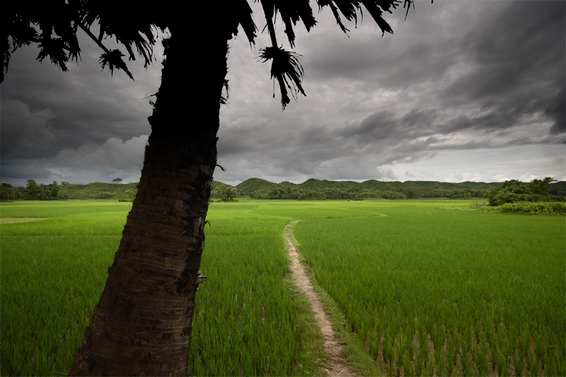 At the border side of Olinagar, Pheni.